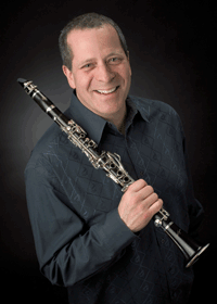 Todd Levy, MSO Principal Clarinet